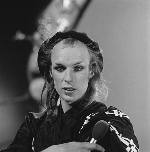 Brian Eno in AVRO's TopPop (Dutch television show) in 1974